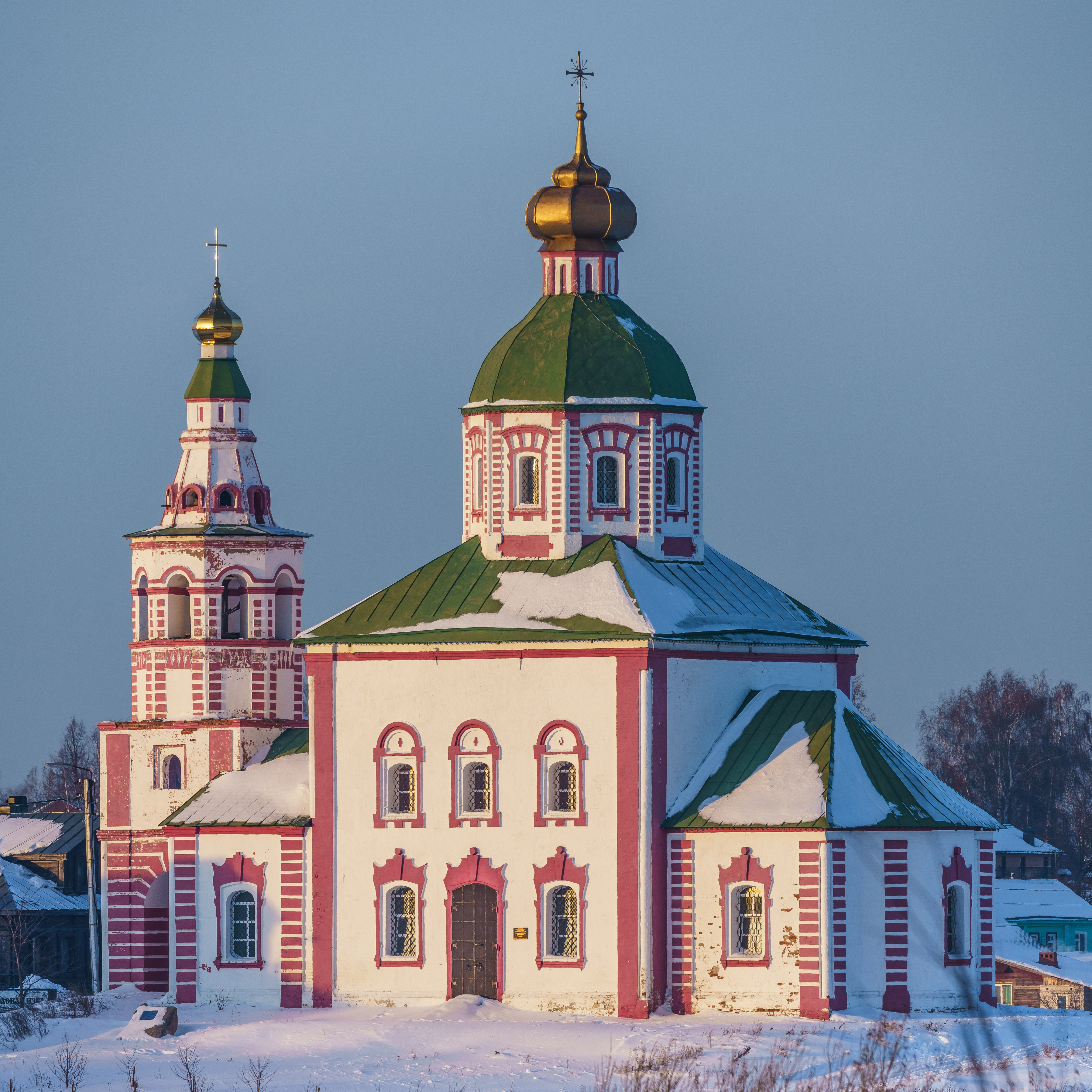 Church of St. Elijah the Prophet in Suzdal, Russia